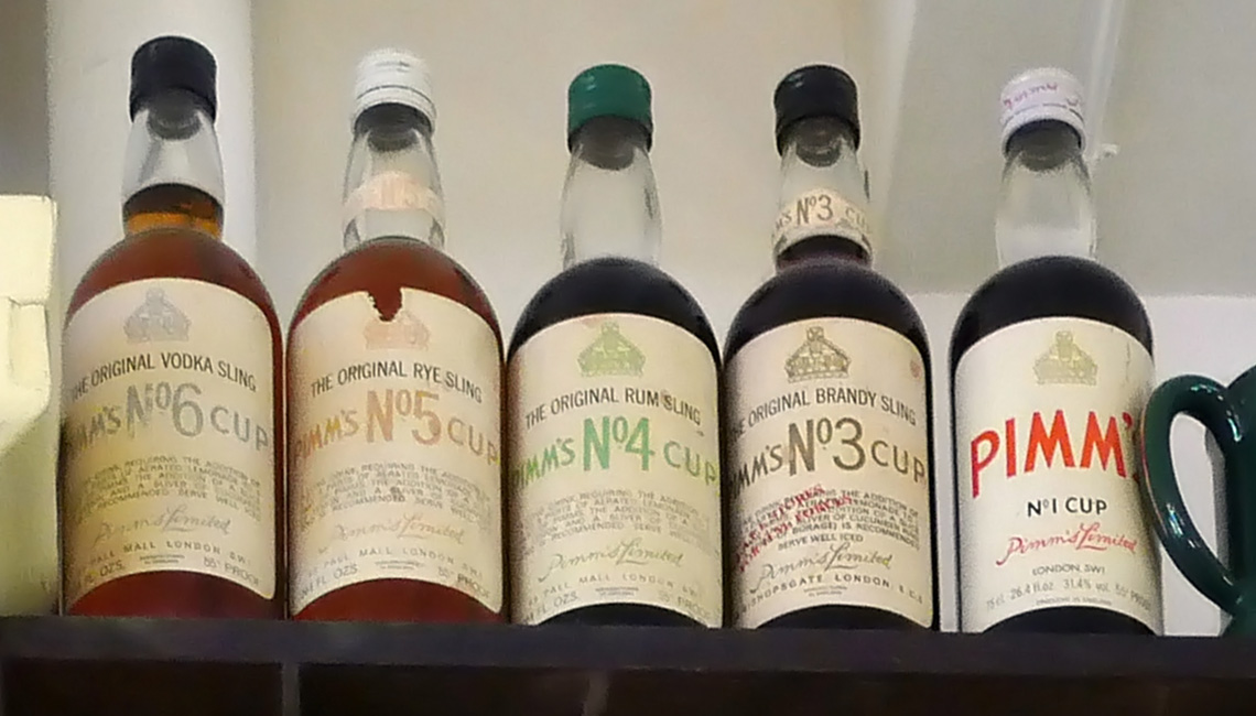 An array of undoubtedly collectible antique Pimm's bottles. They're missing Pimms No. 2 unfortunately...